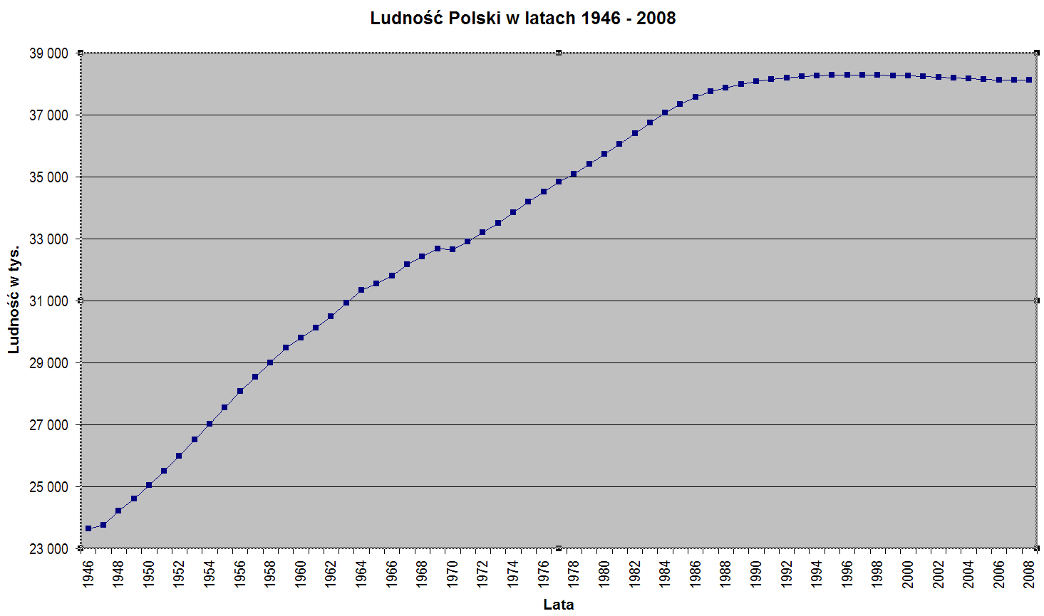 Poland's population (1946-2008).